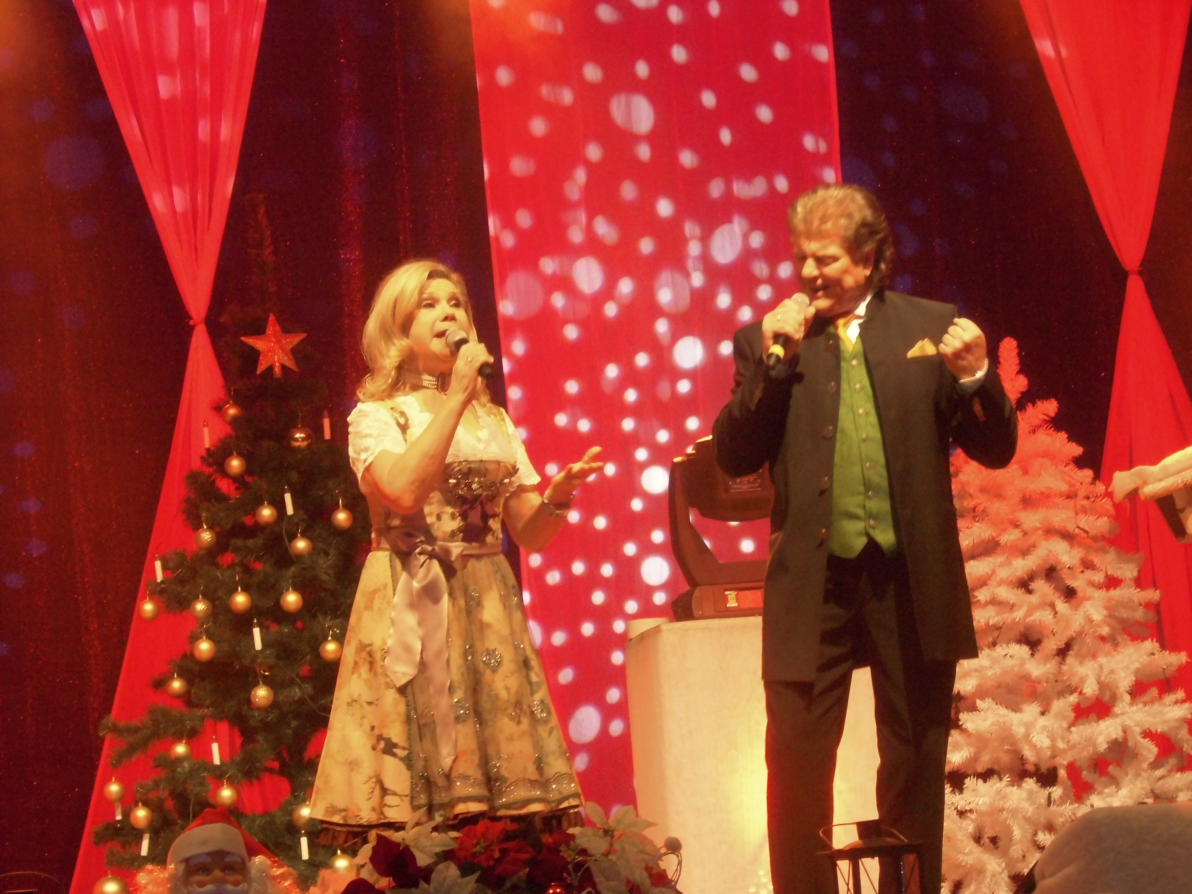 Marianne & Michael in the Ofen-City-Hall in Velten